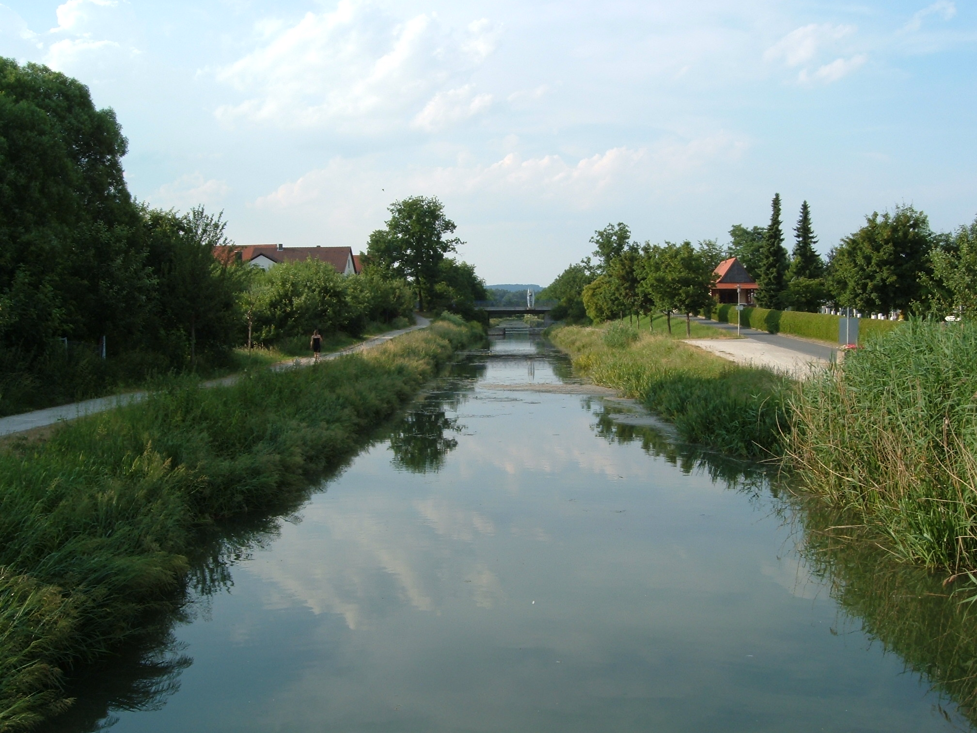 Ludwigskanal in Neumarkt in der Oberpfalz